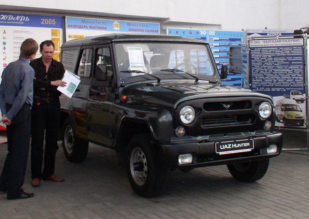 UAZ Hunter in Minsk, Belarus.